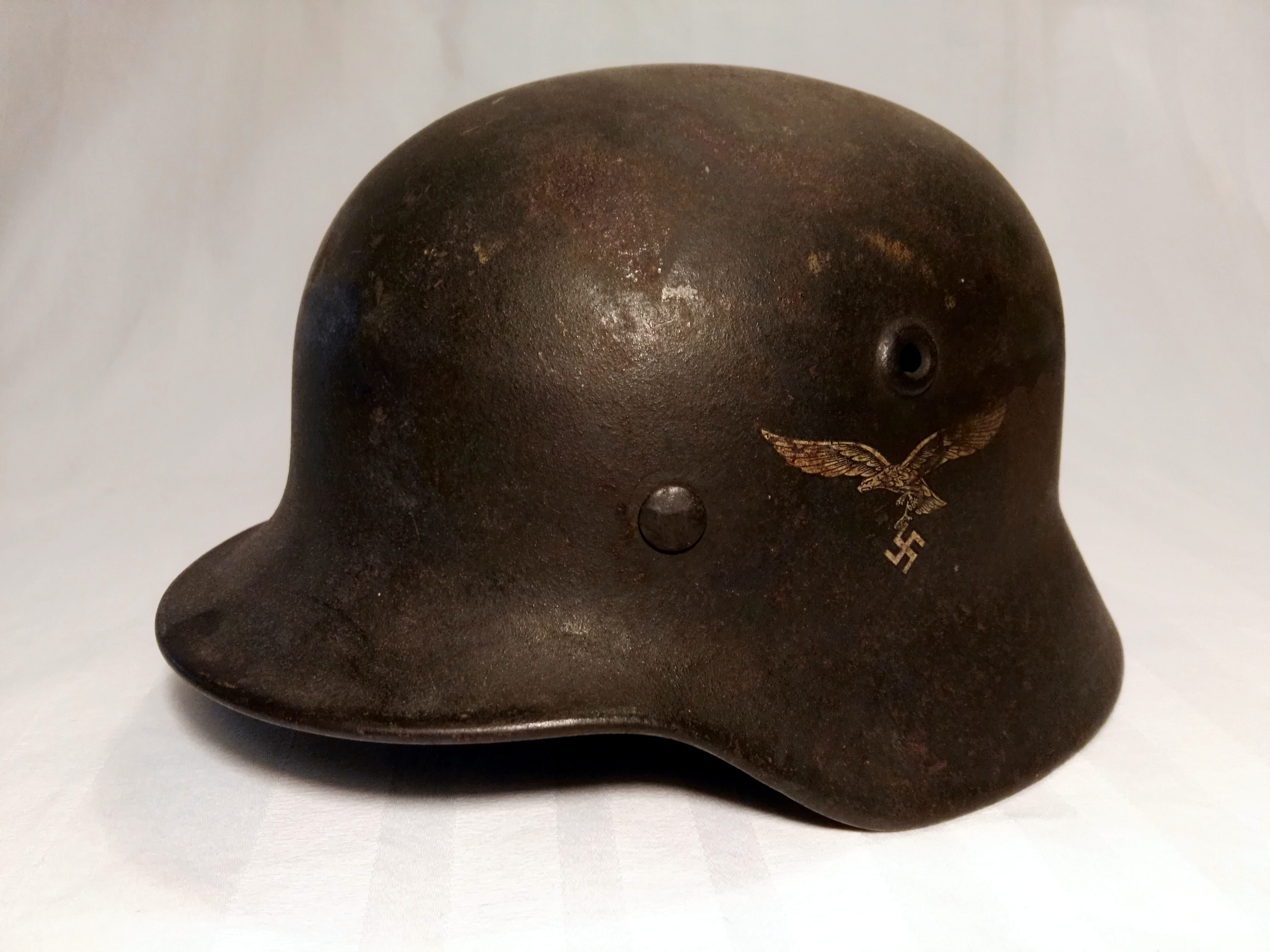 A helmet M40 of Nazi German Luftwaffe